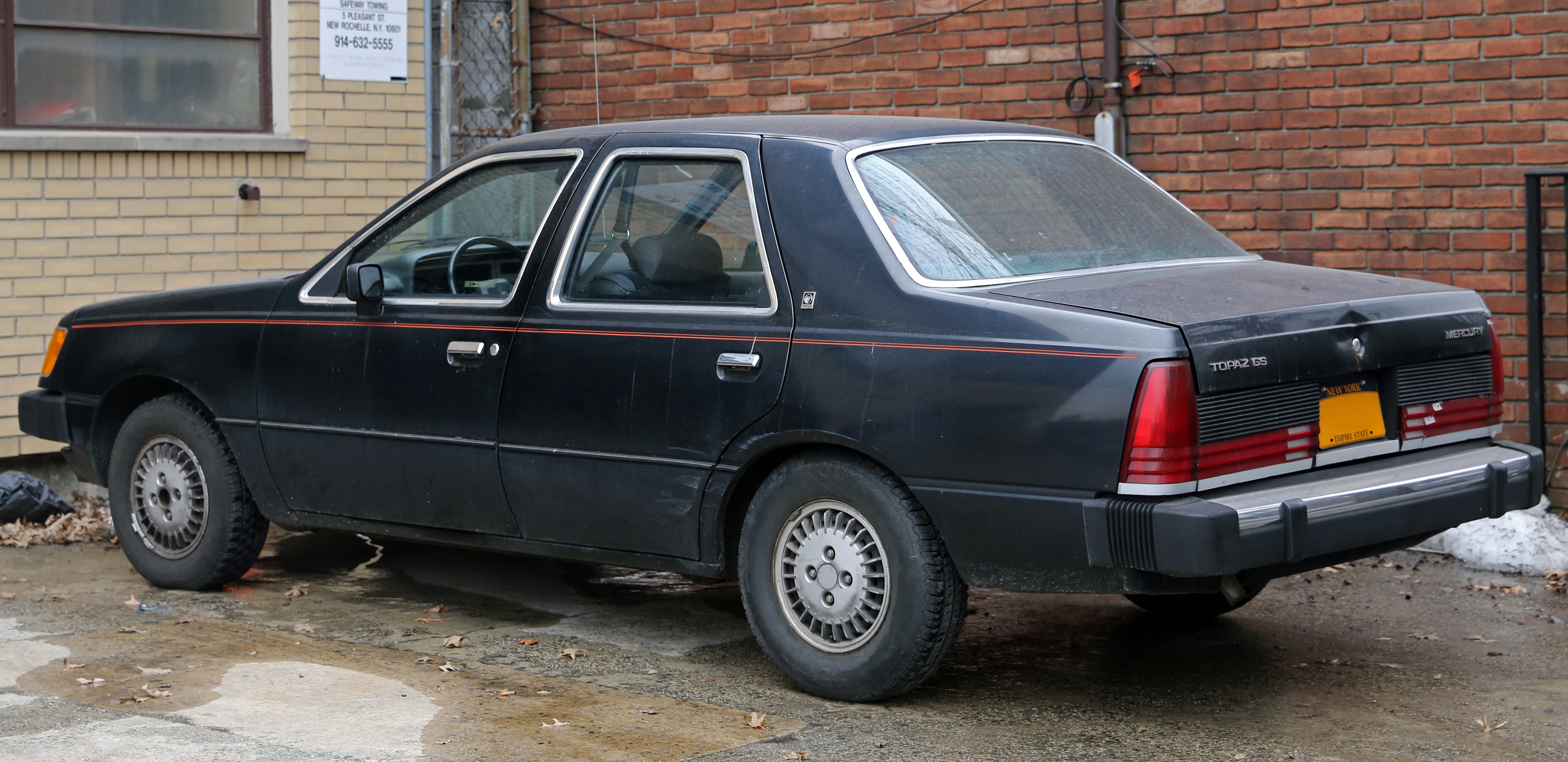 1984 Mercury Topaz GS, with the 2.3 liter HSC engine of 90hp. Assembled in Canada